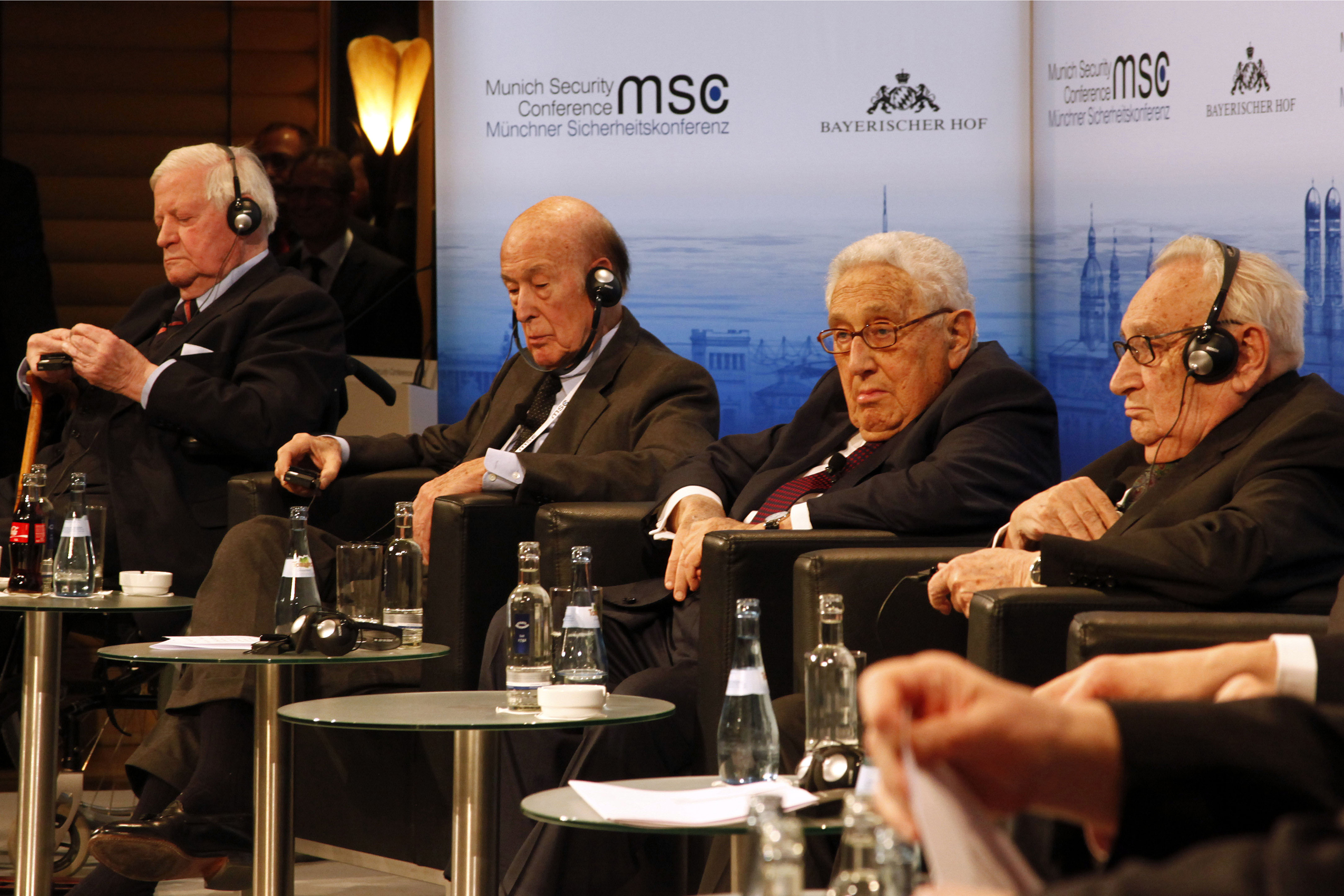 50th Munich Security Conference 2014: Helmut Schmidt, Valéry Giscard d'Estaing, Henry Kissinger and Egon Bahr: Helmut Schmidt (Former Federal Chancellor of the Federal Republic of Germany; Editor, Die Zeit), Valéry Giscard d'Estaing (Former President, French Republic), Henry Kissinger (Former Secretary of State, USA) and Egon Bahr (Former Federal Minister for Special Affairs of the Federal Republic of Germany).